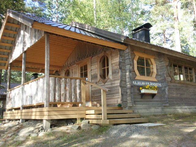 This is taken from Muljula, Kitee, Finland